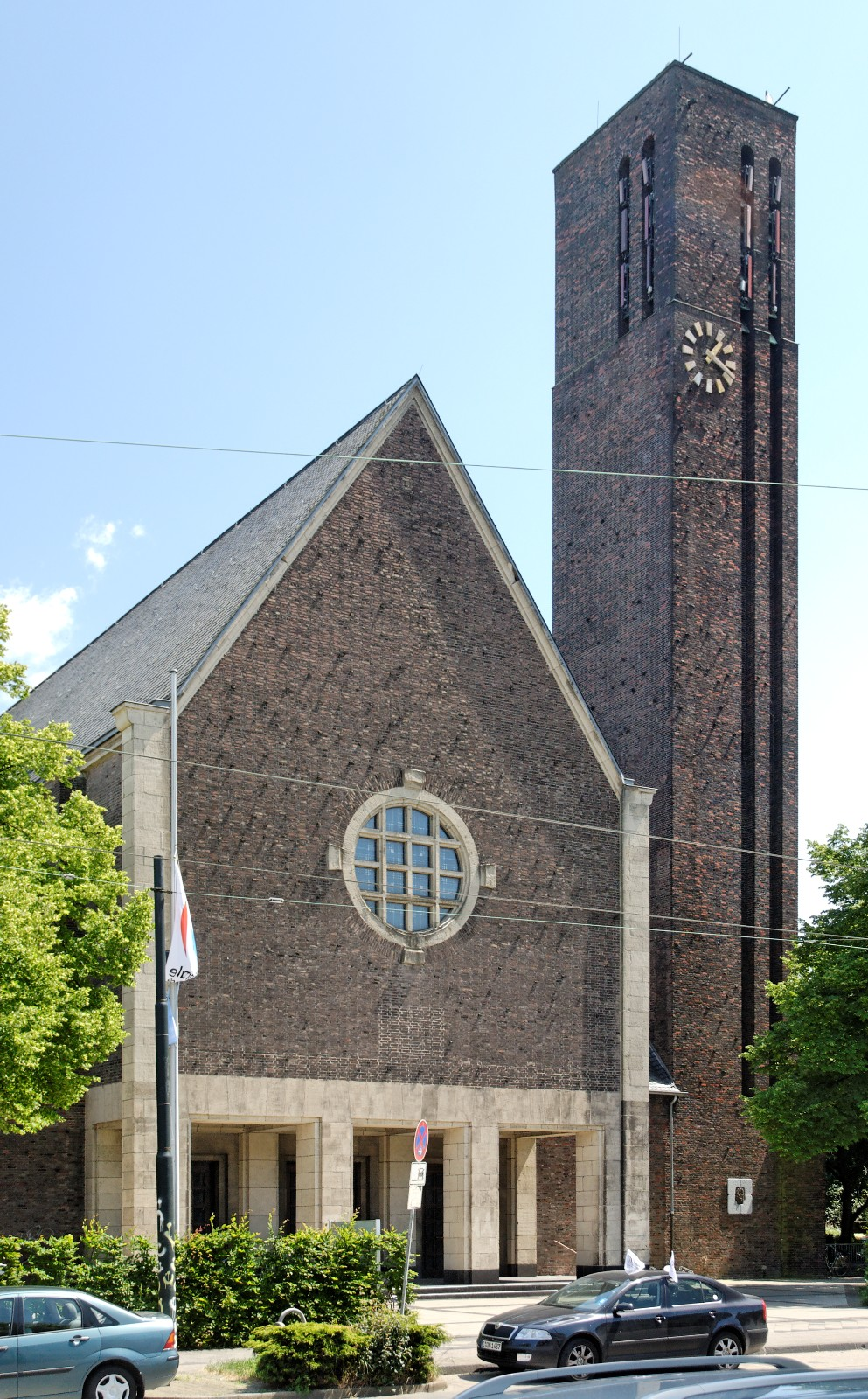 Saint Bruno in Düsseldorf-Unterrath, Germany